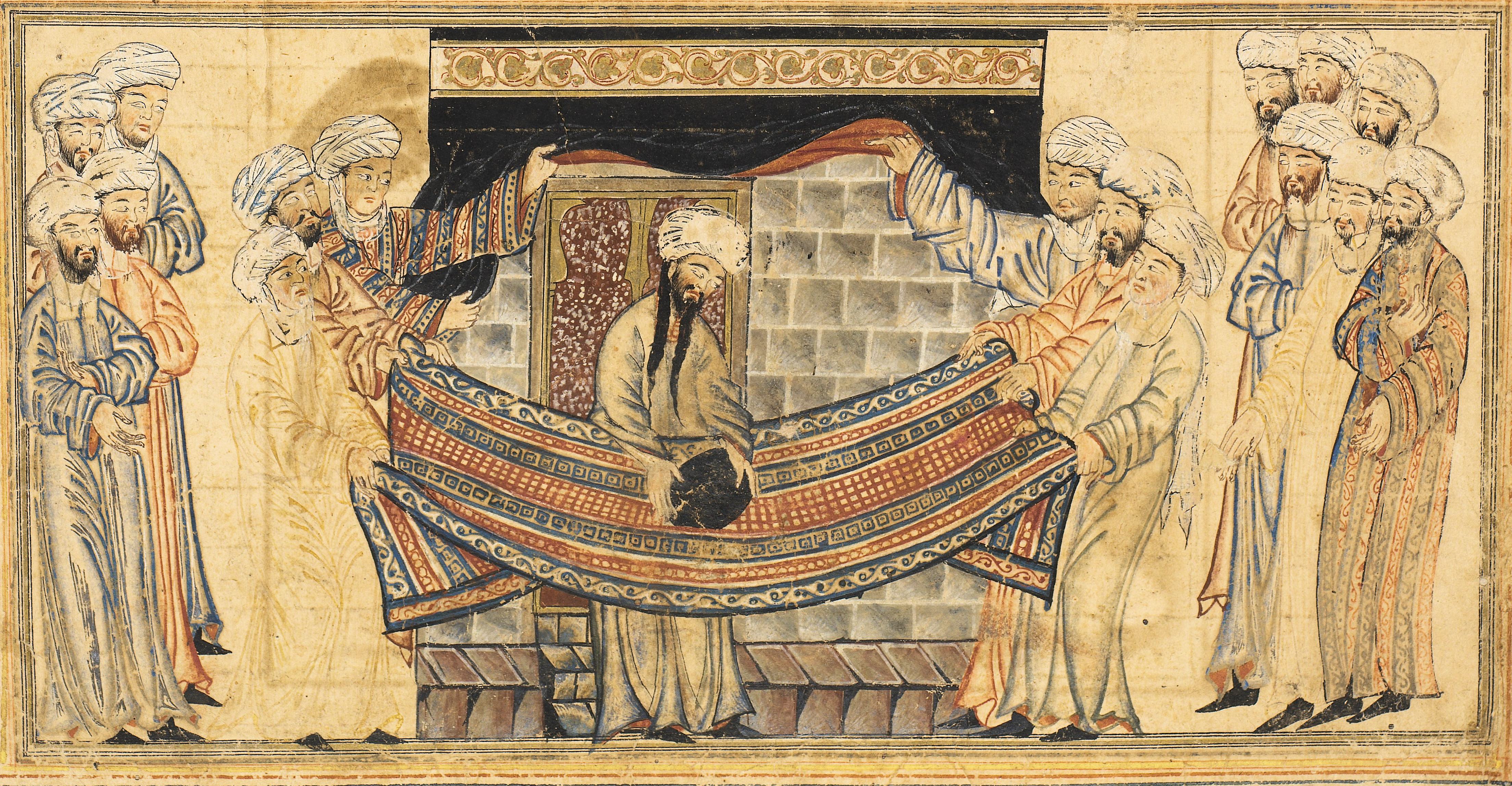 Muhammad lifts the Black Stone, from the Jami al-Tawarikh, Khalili Collection